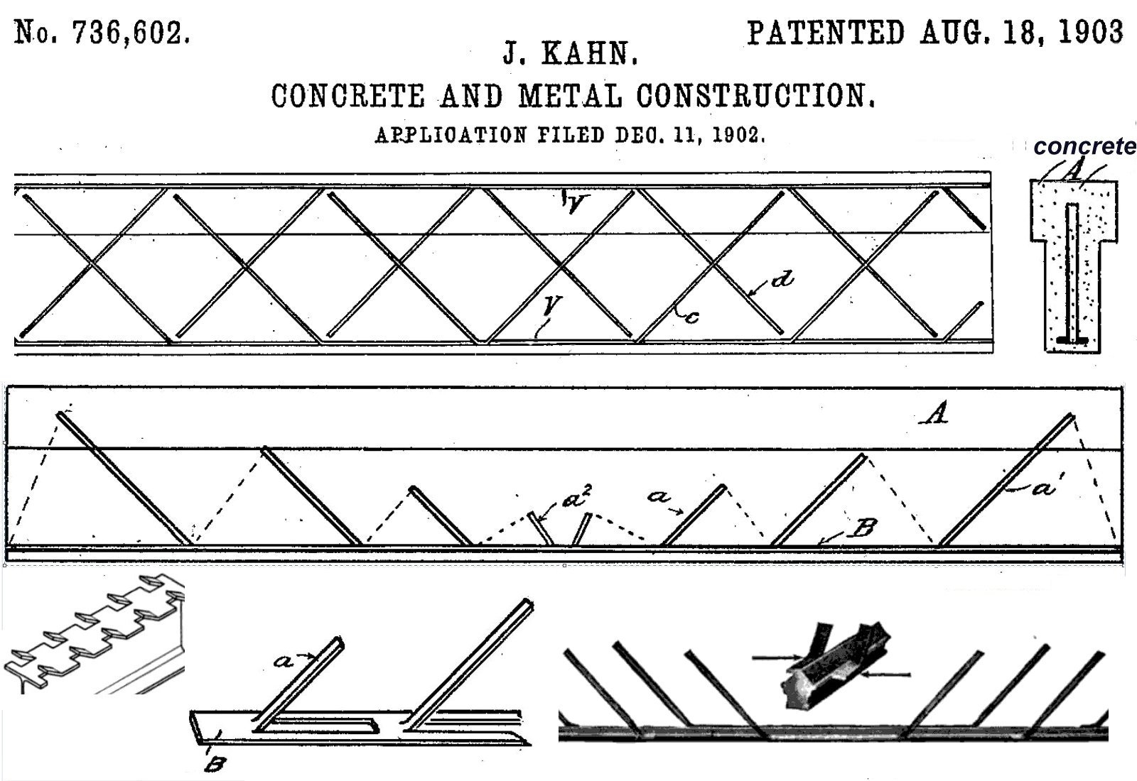 Patent 736, 602 Kahn system of reinforced concrete